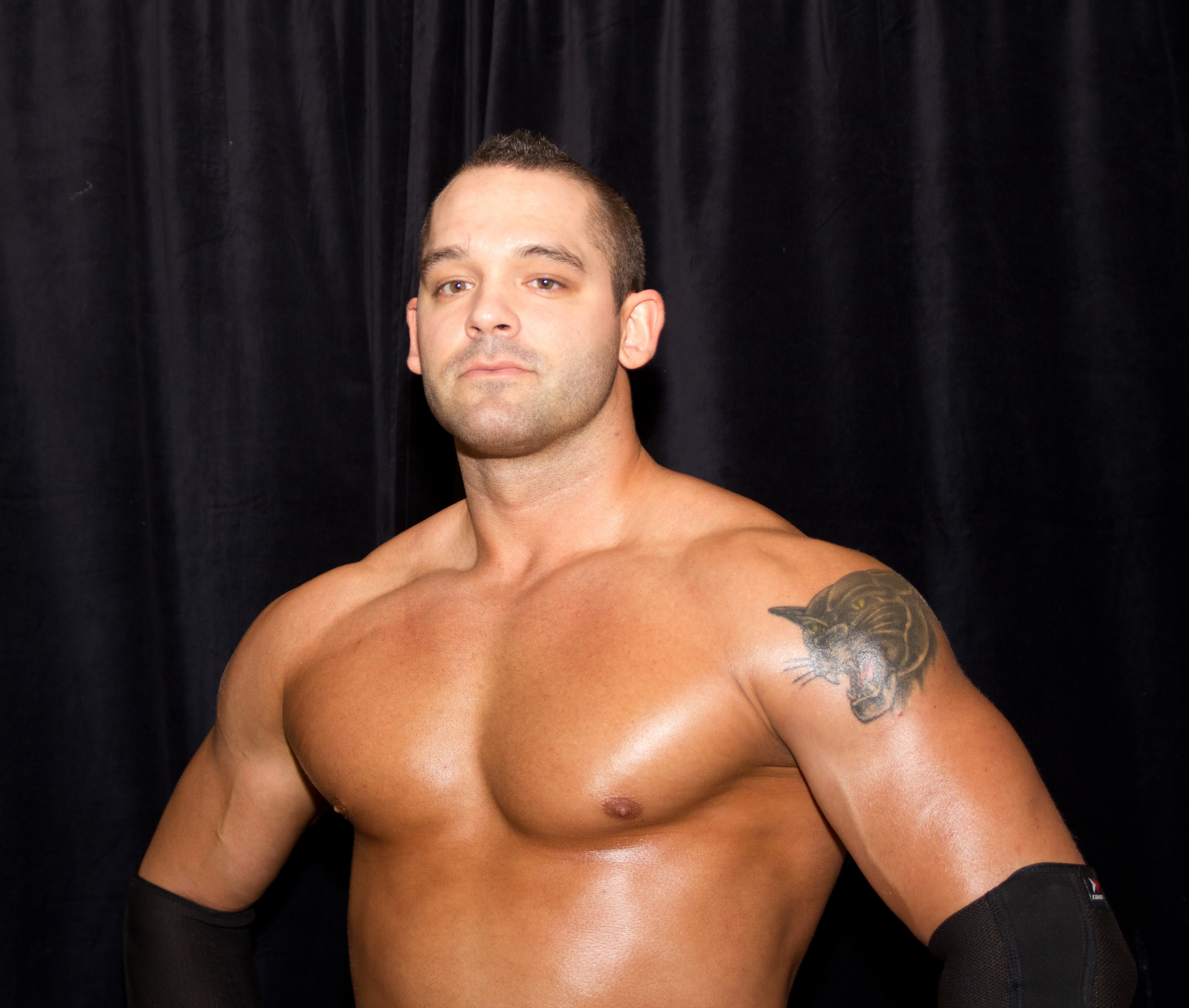 Wrestler Shawn Spears, prior to a CPW show in Woodstock